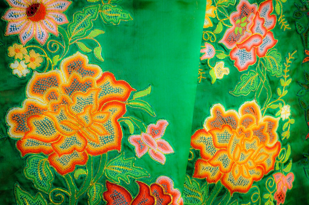 Sulam Sumatera Barat